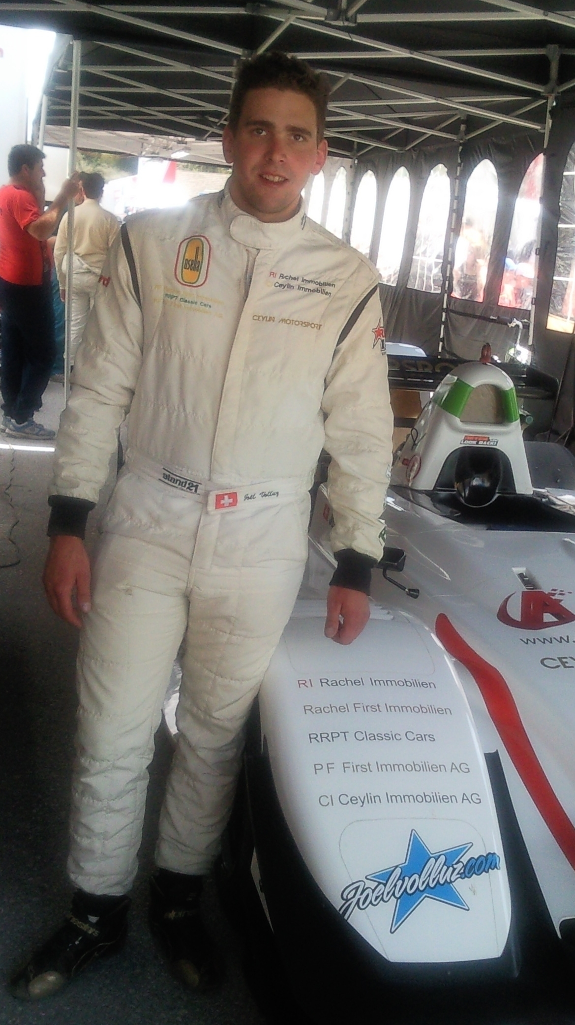 Joël Volluz 2013